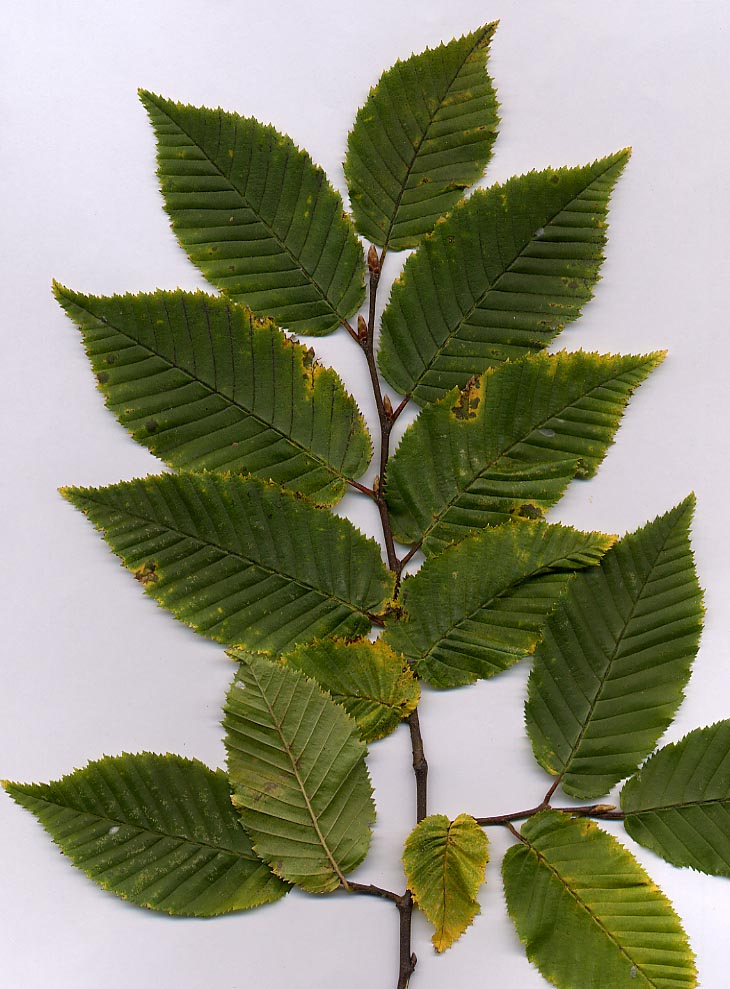 Carpinus betulus foliage